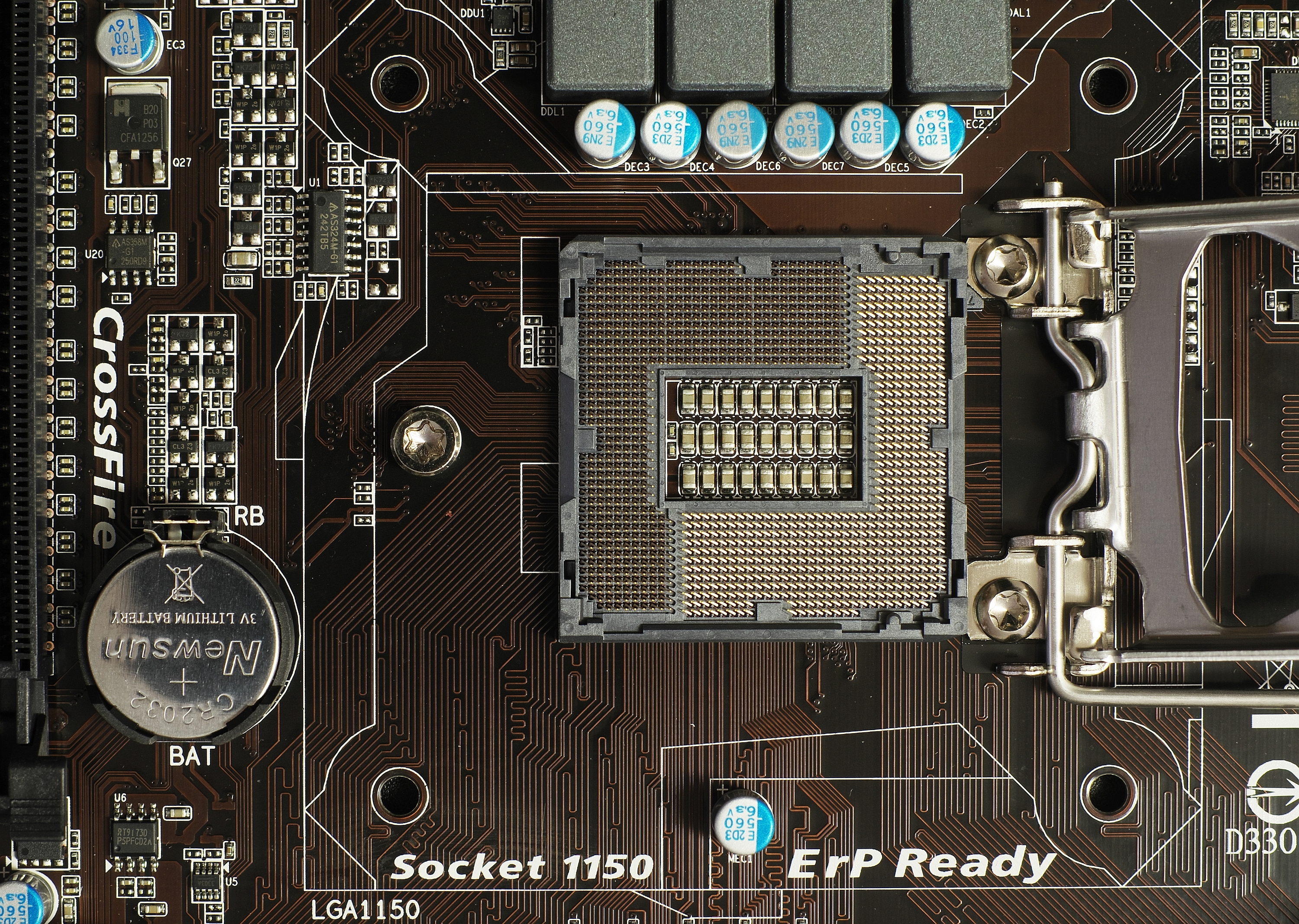 Intel core socket 1150, open.